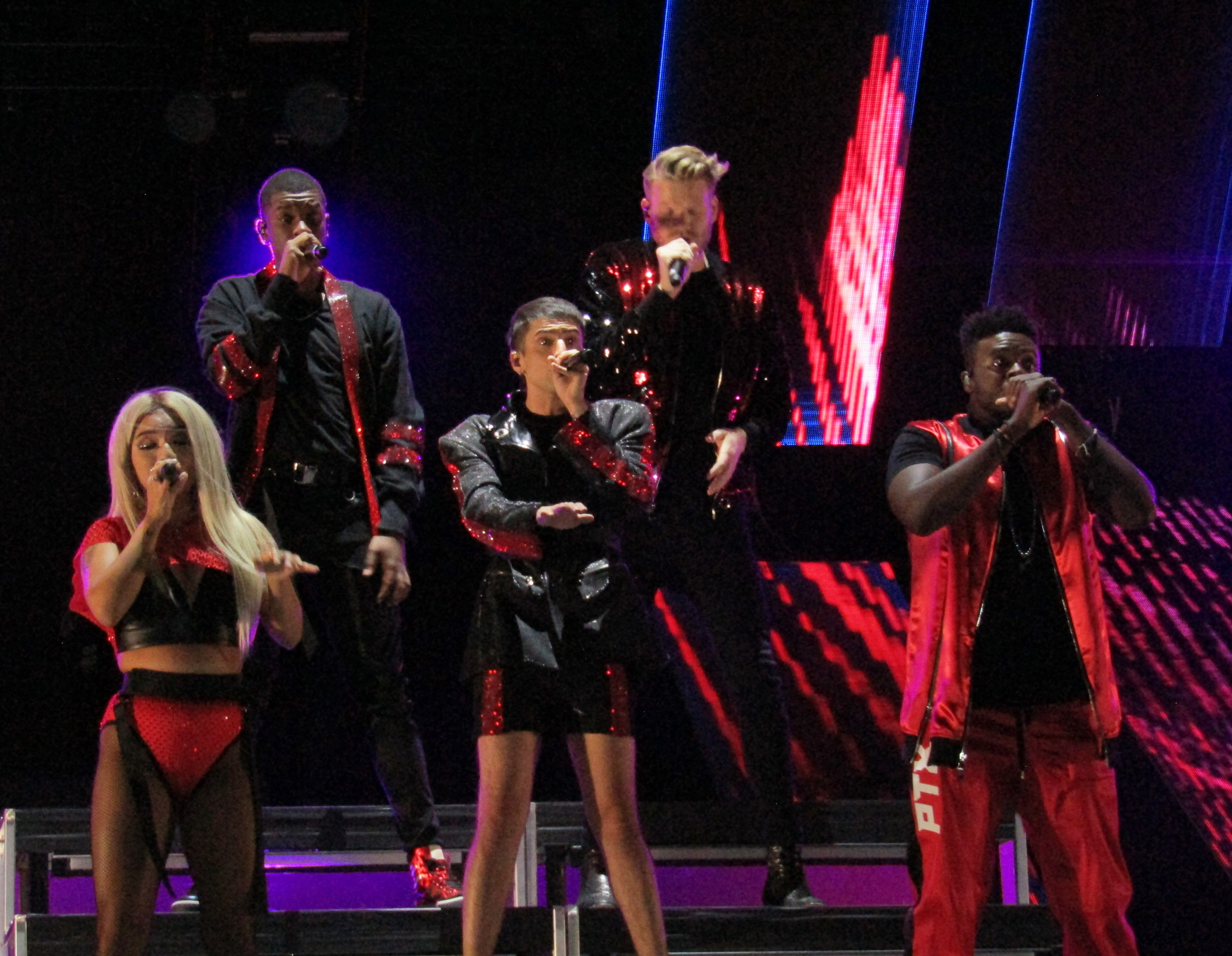 Pentatonix performing at the USANA Amphitheatre.